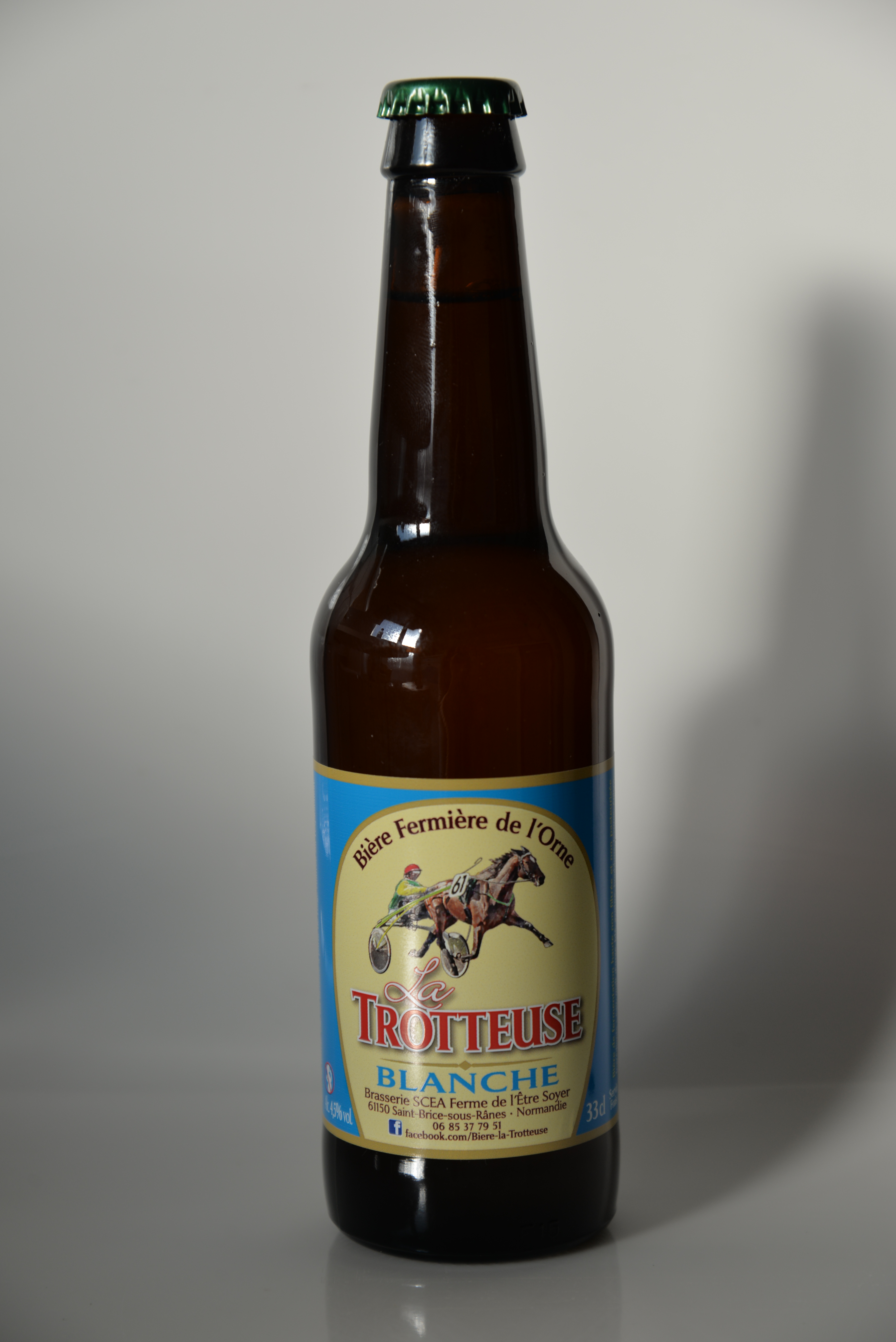 The beer of Saint-Brice-sous-Rânes.